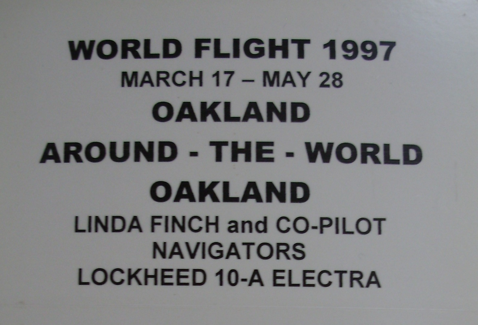 Accompanies map of her route, the red line.